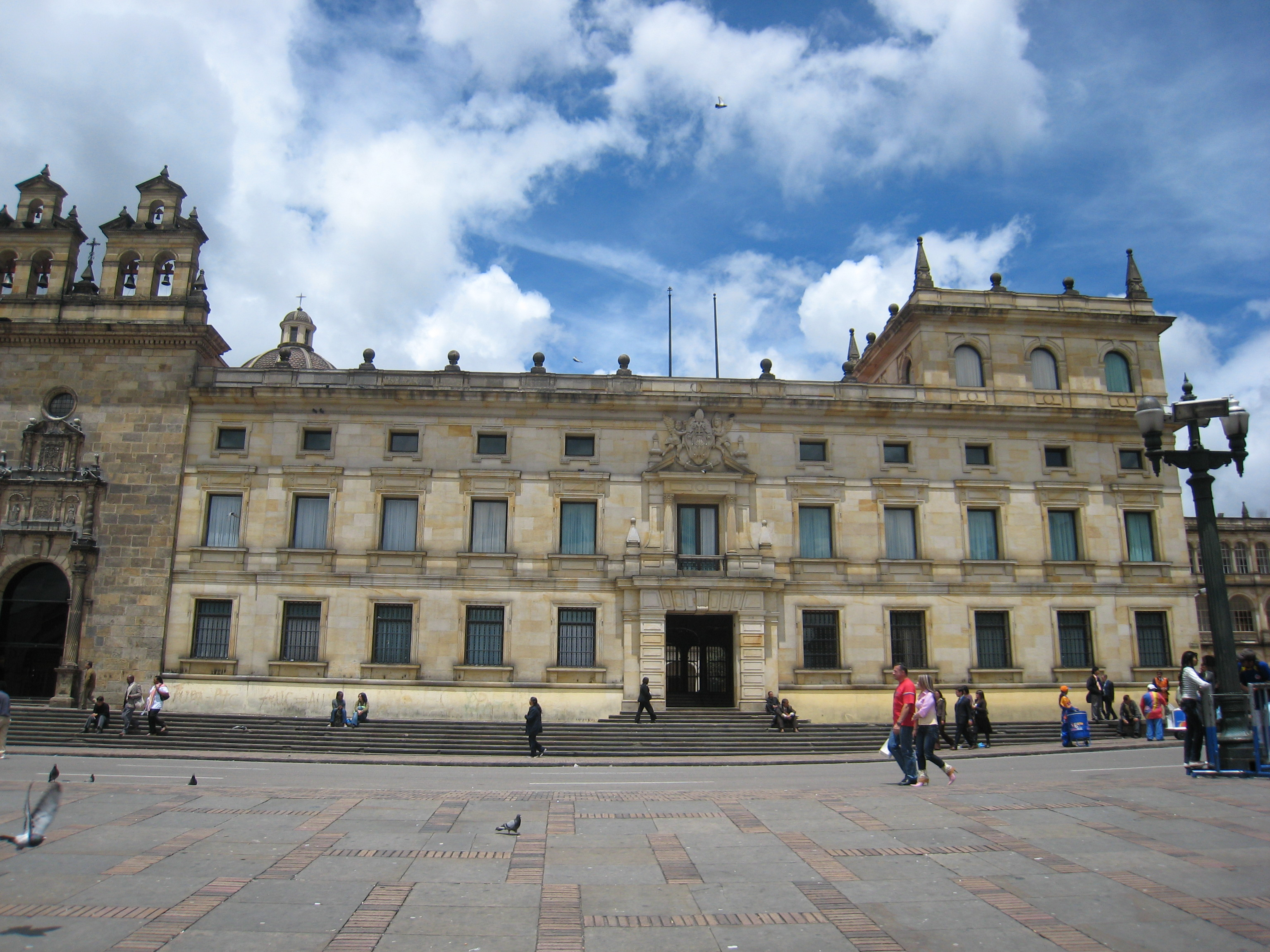 Archiepiscopal palace in Bogotá